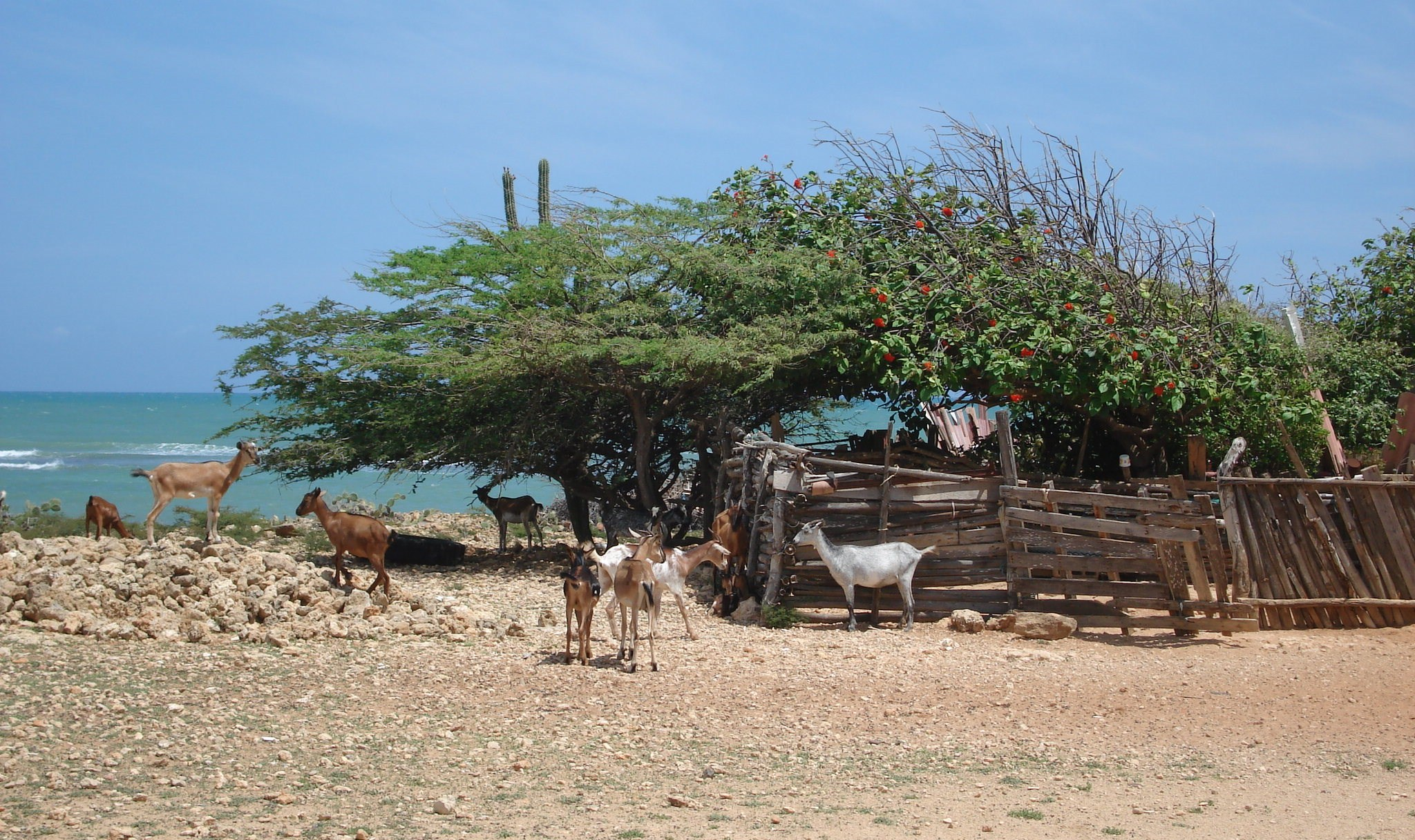 Goats on the Paraguaná Peninsula, Falcón.